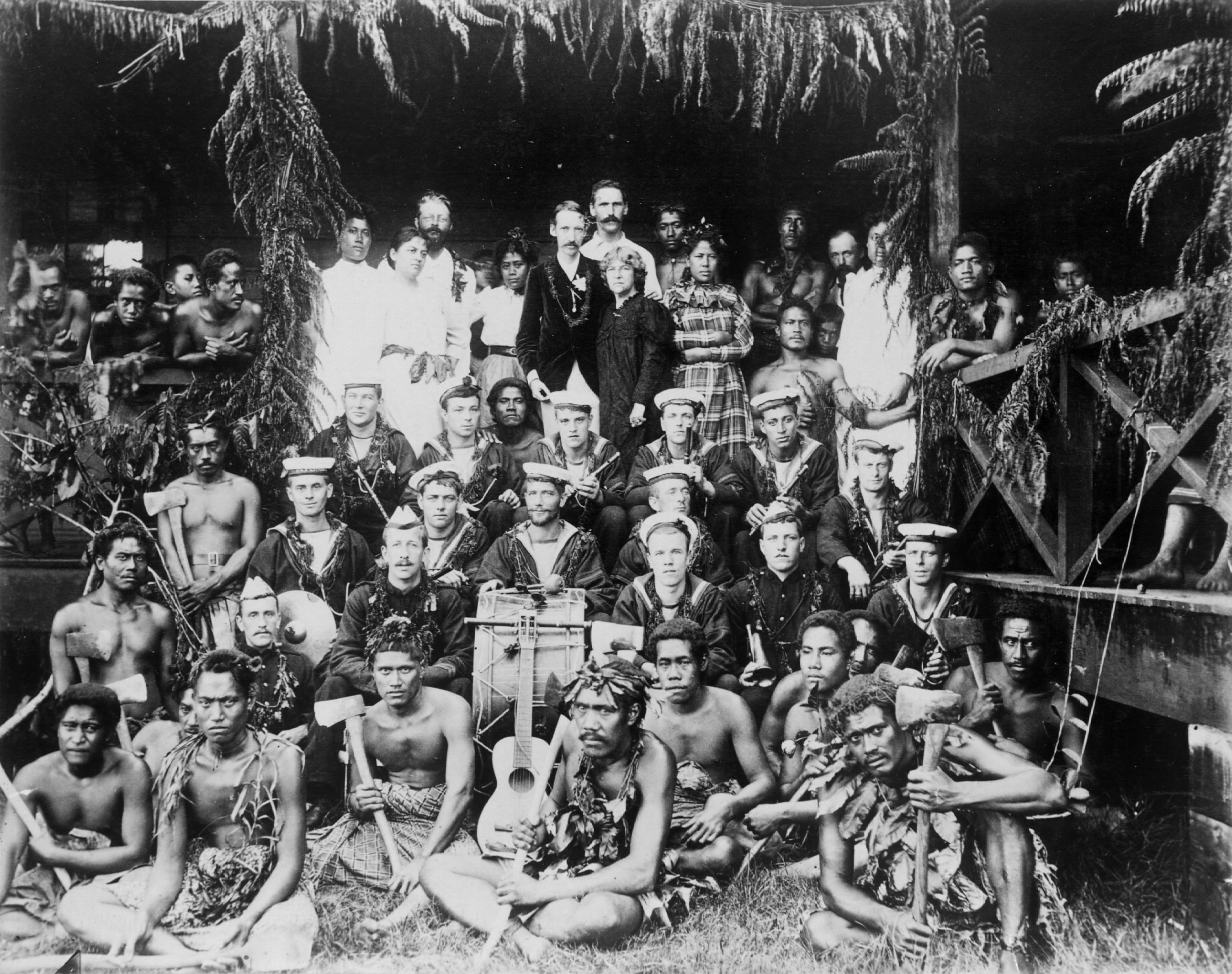 Robert Louis Stevenson, his family and Samoans, and the band of HMS Tauranga at Vailima, ca. 1890. Reference Number: PA1-q-223-32. Robert Louis Stevenson, his family and Samoans, and the band of HMS Tauranga at Vailima photographed by Alfred Tattersall.